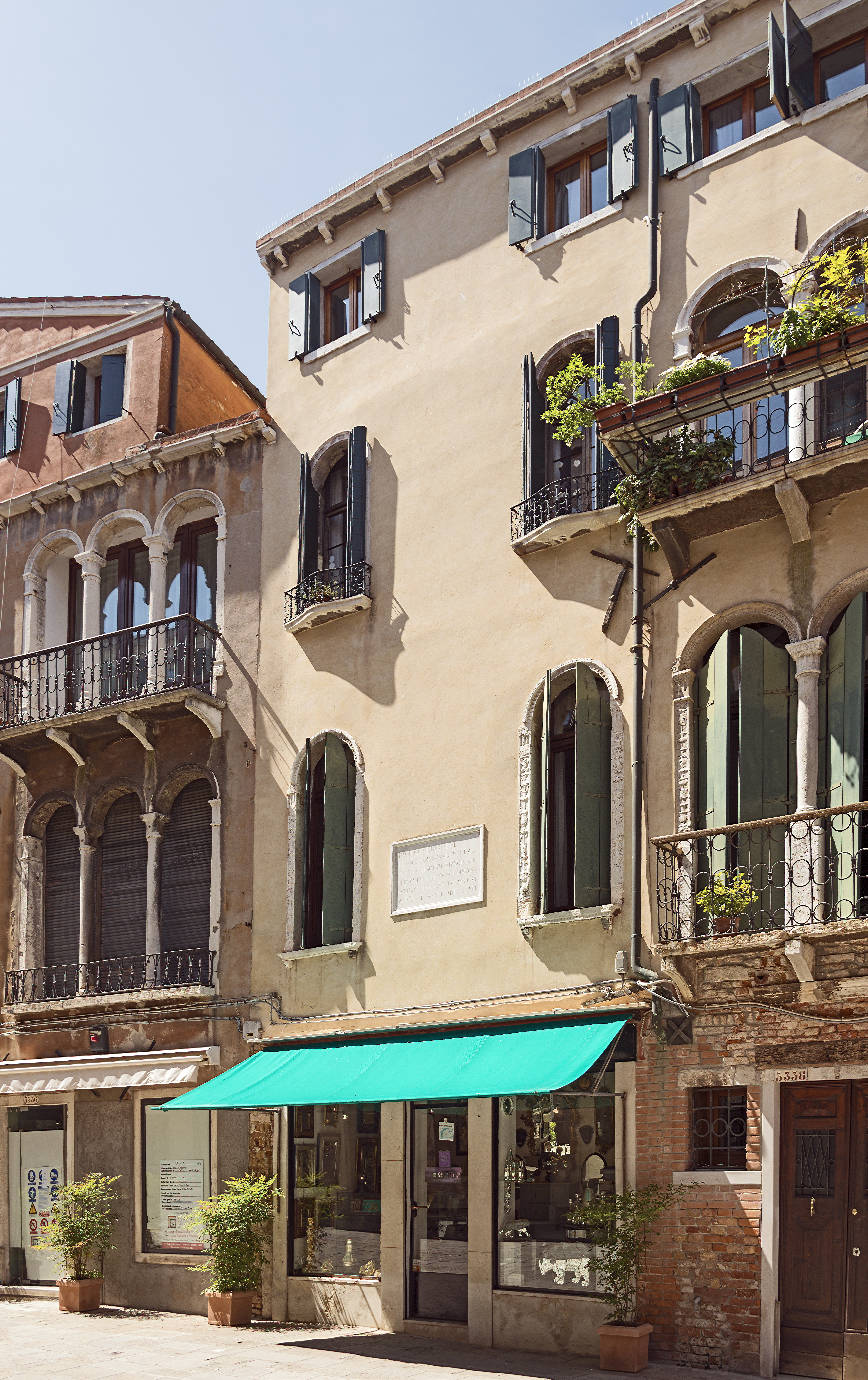 Palazzetto del Veronese - Salizada San Samuele. House of Paolo Veronese in Venice.